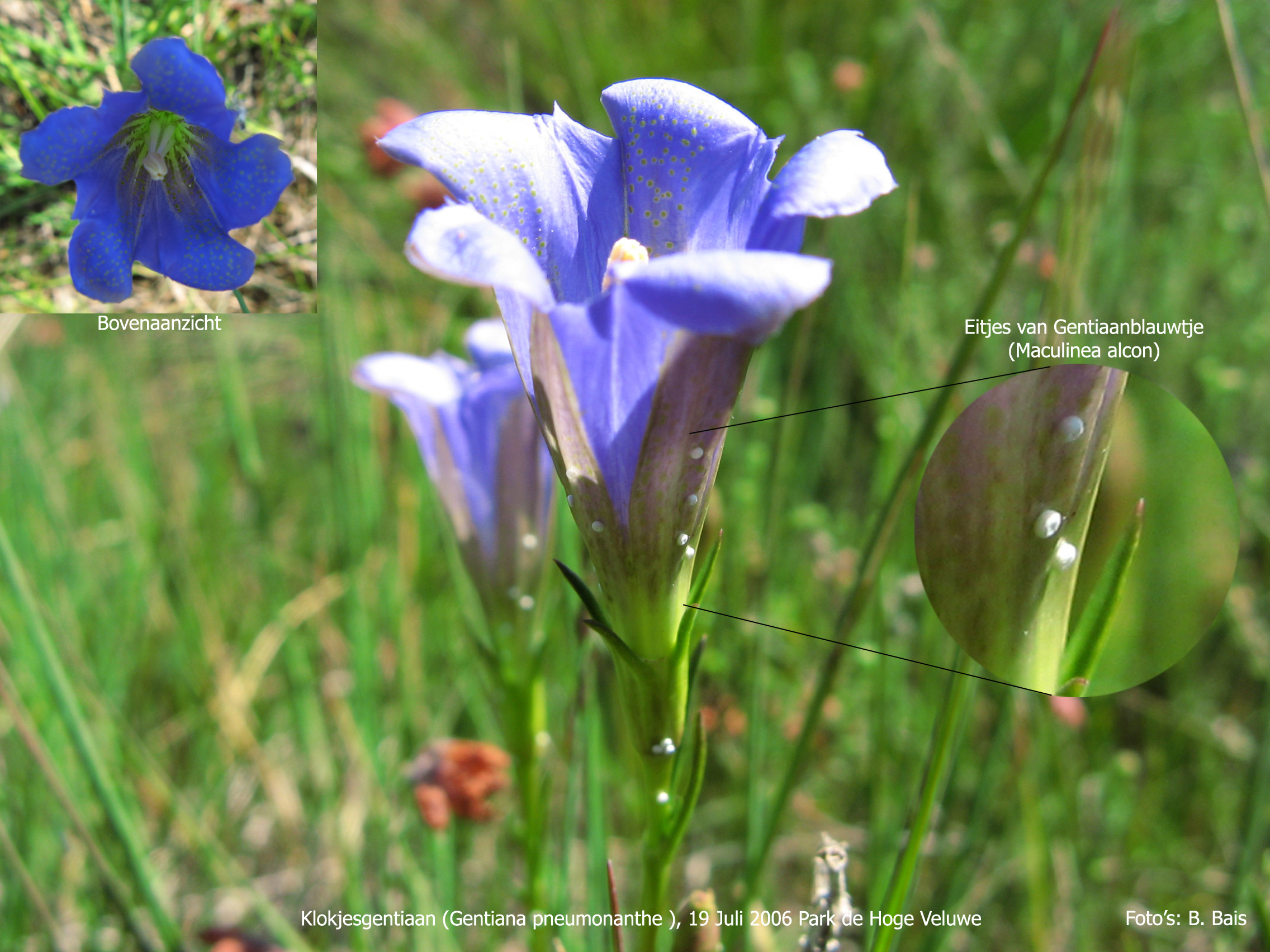 Eggs of the Alcon Blue butterfly (Maculinea alcon) on Marsh Gentian (Gentiana pneumonanthe).